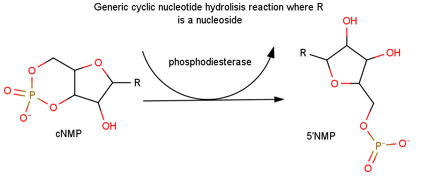 Hydrolisis of 3' cNMP phosphodiester bond by phosphodiesterase